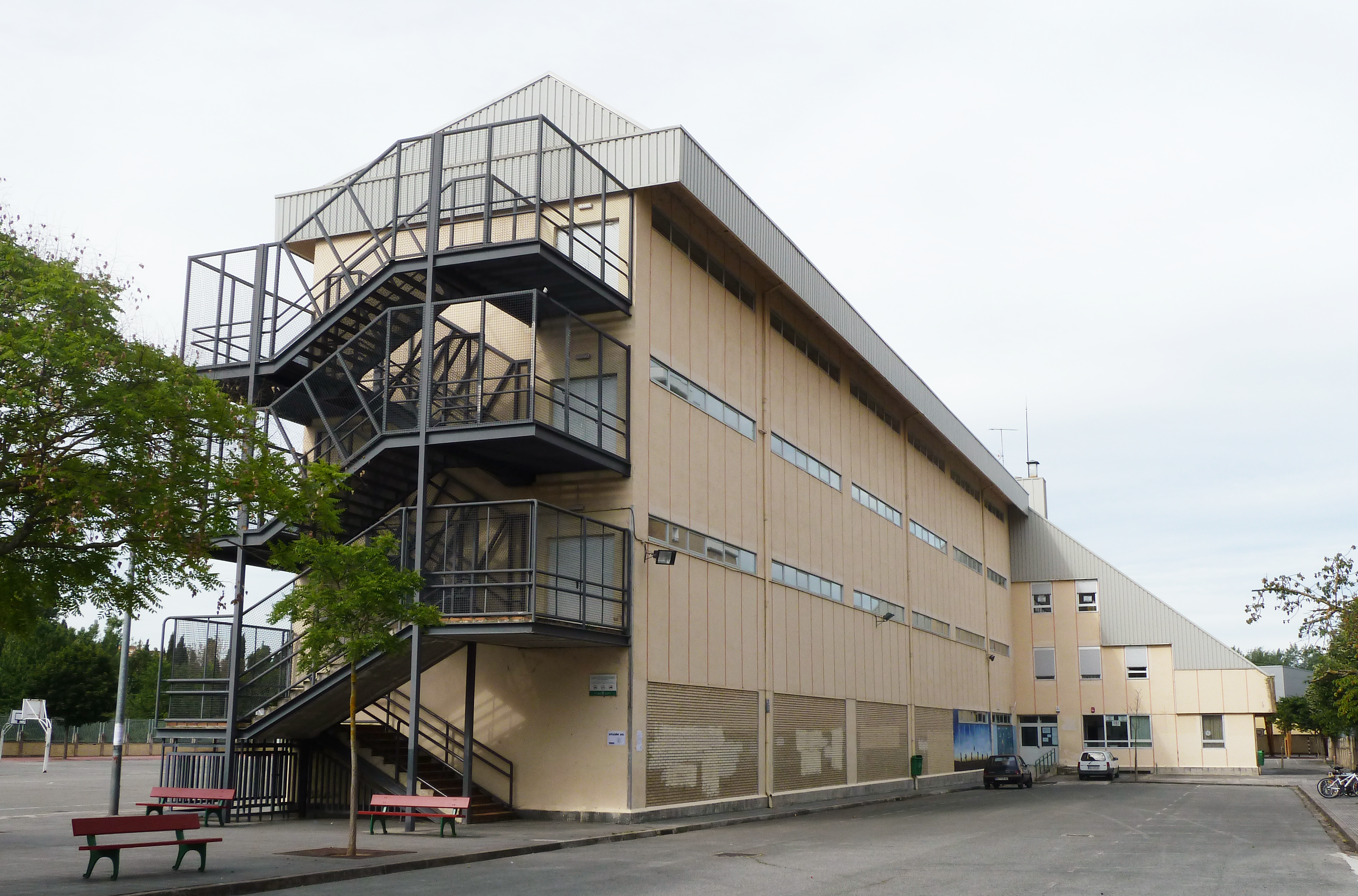 Public school under the Department of Education, Government of Navarre, which teaches second cycle of pre-school education (3-6 years) and primary. It opened in 1972 and is located in Doctor Juaristi Street. The school offers teaching in Spanish (G and A)